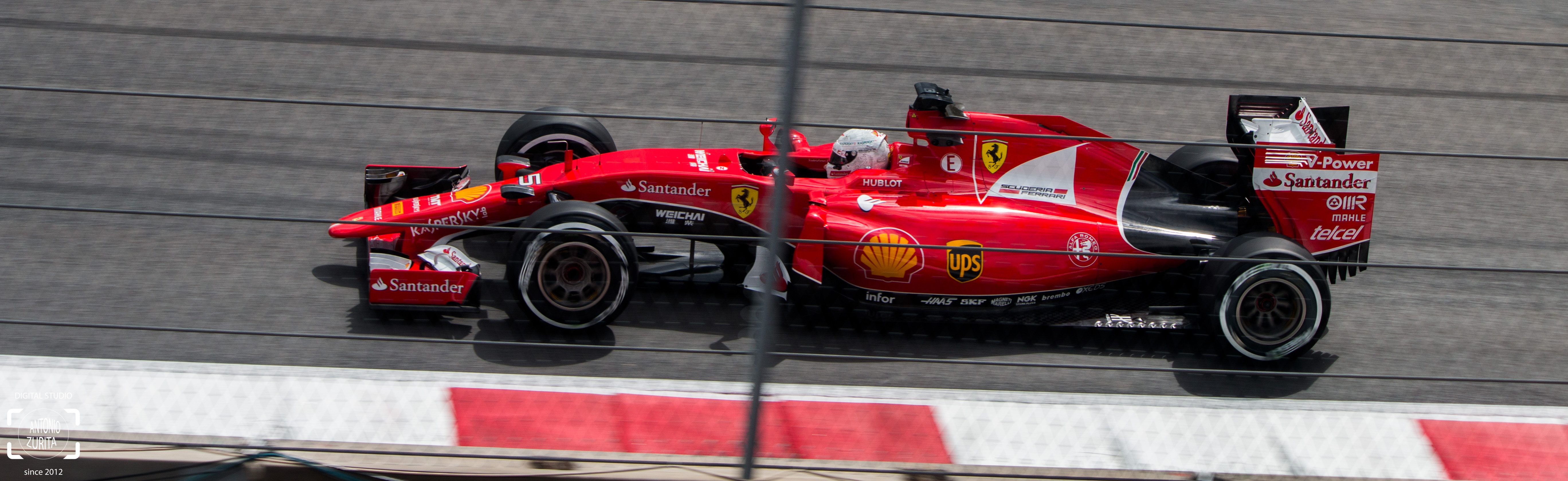 Sebastian Vettel at the 2015 Mexican Grand Prix